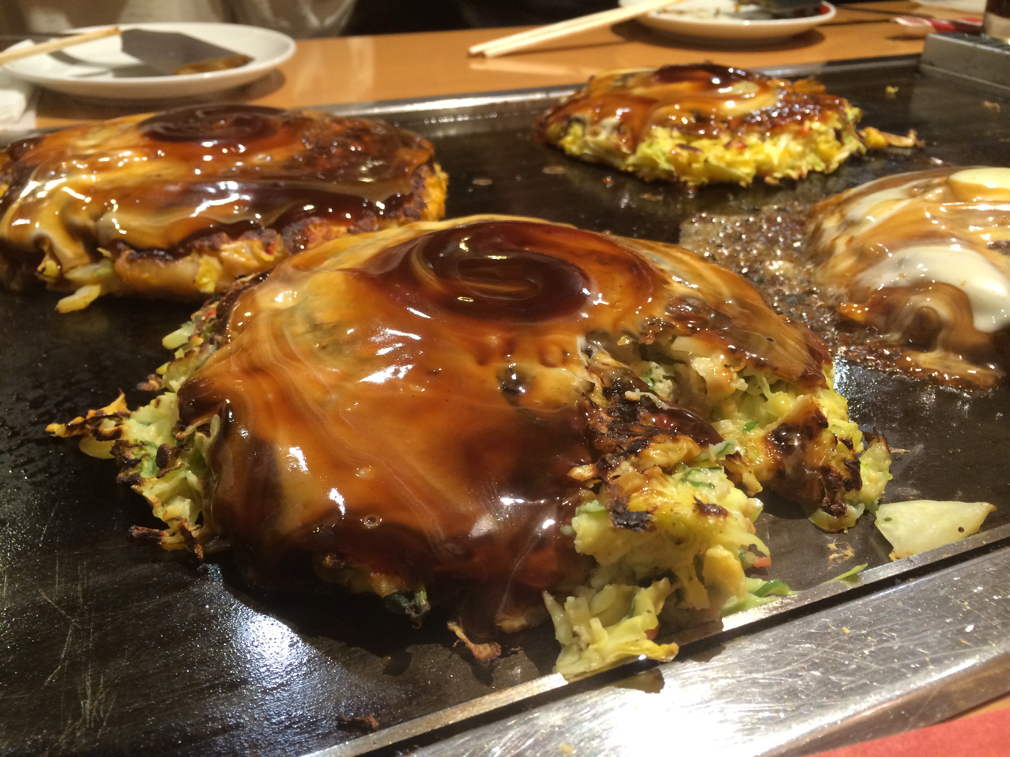 Okonomiyaki in a restaurant in Osaka (kansai style)